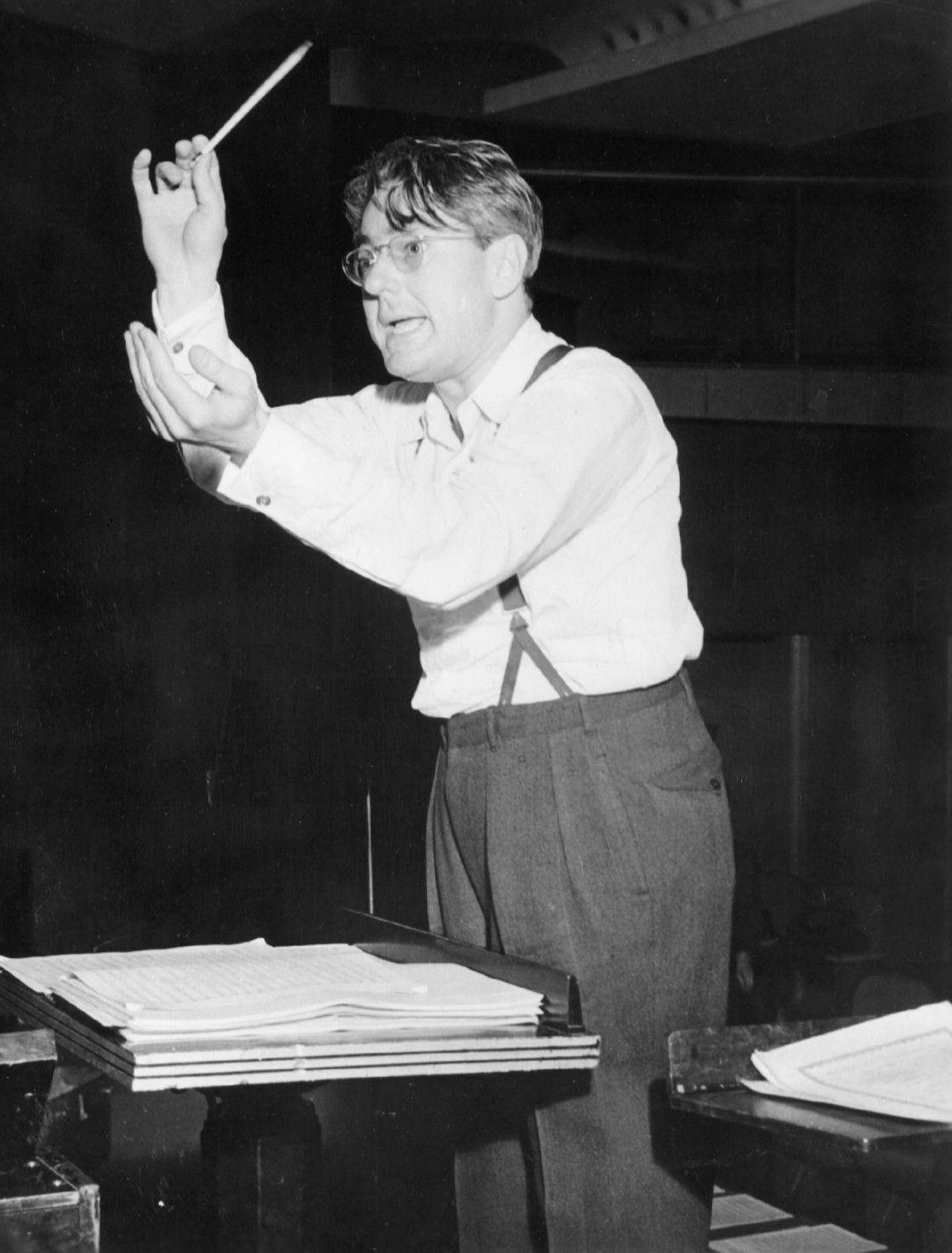 Photo of Donald Voorhees conducting for the radio program Bell Telephone Hour.